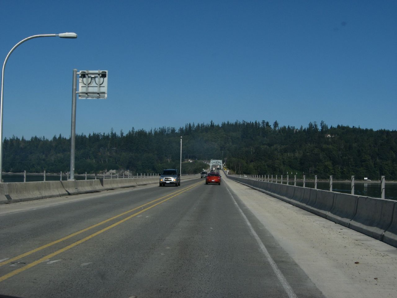 Looking westbound on Washington State Route 104 on the Hood Canal Bridge